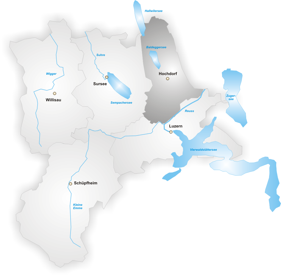 District Hochdorf